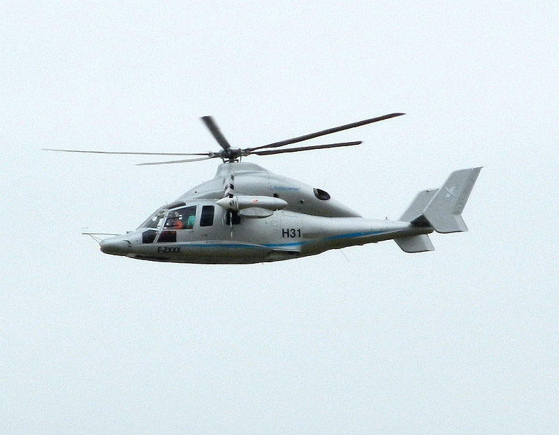 Eurocopter X³